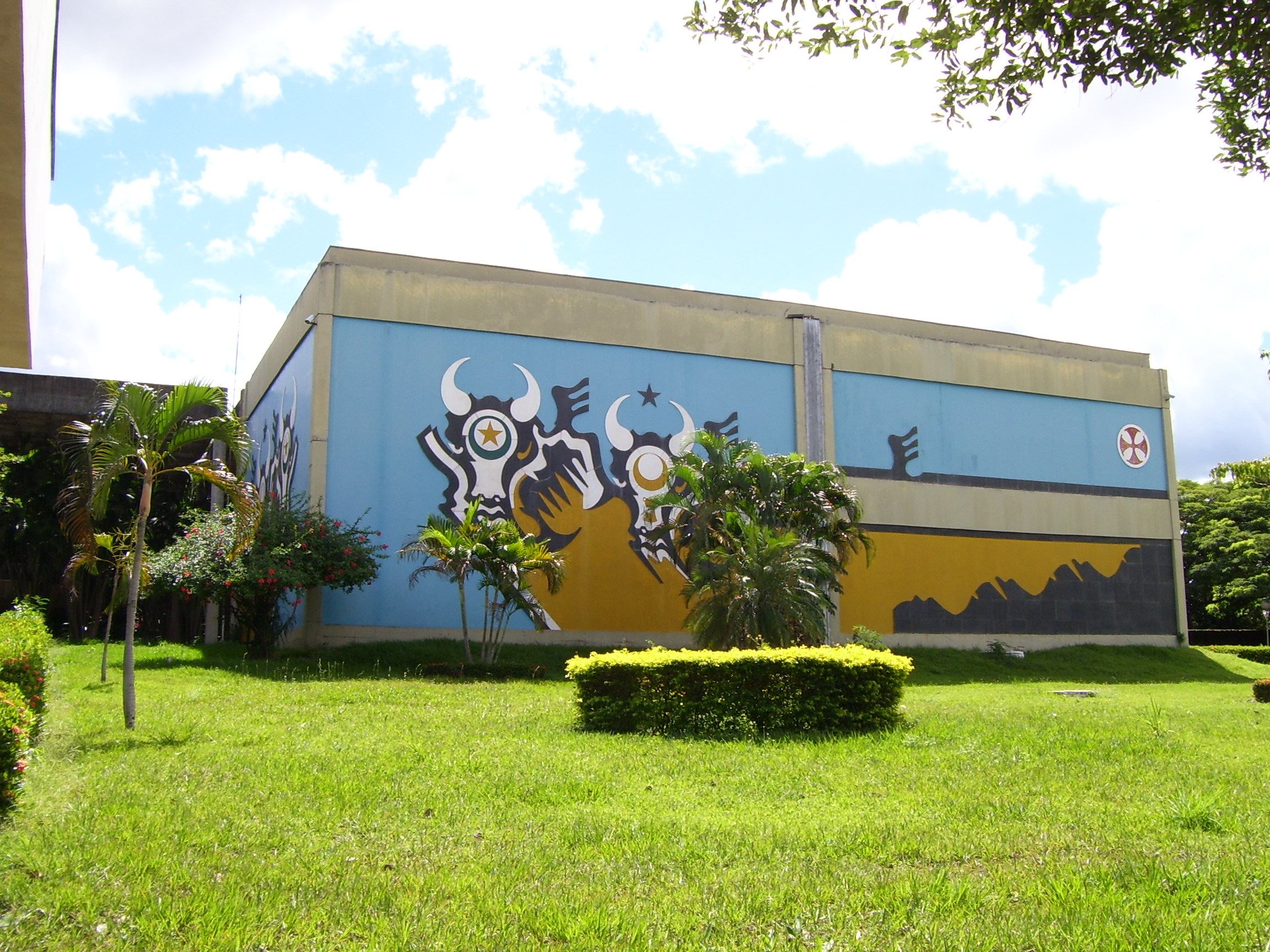 Paiaguás Palace , headquarter of state's government of Mato Grosso, located in the Politic-Administrative Center, Cuiabá, Mato Grosso, Brazil.